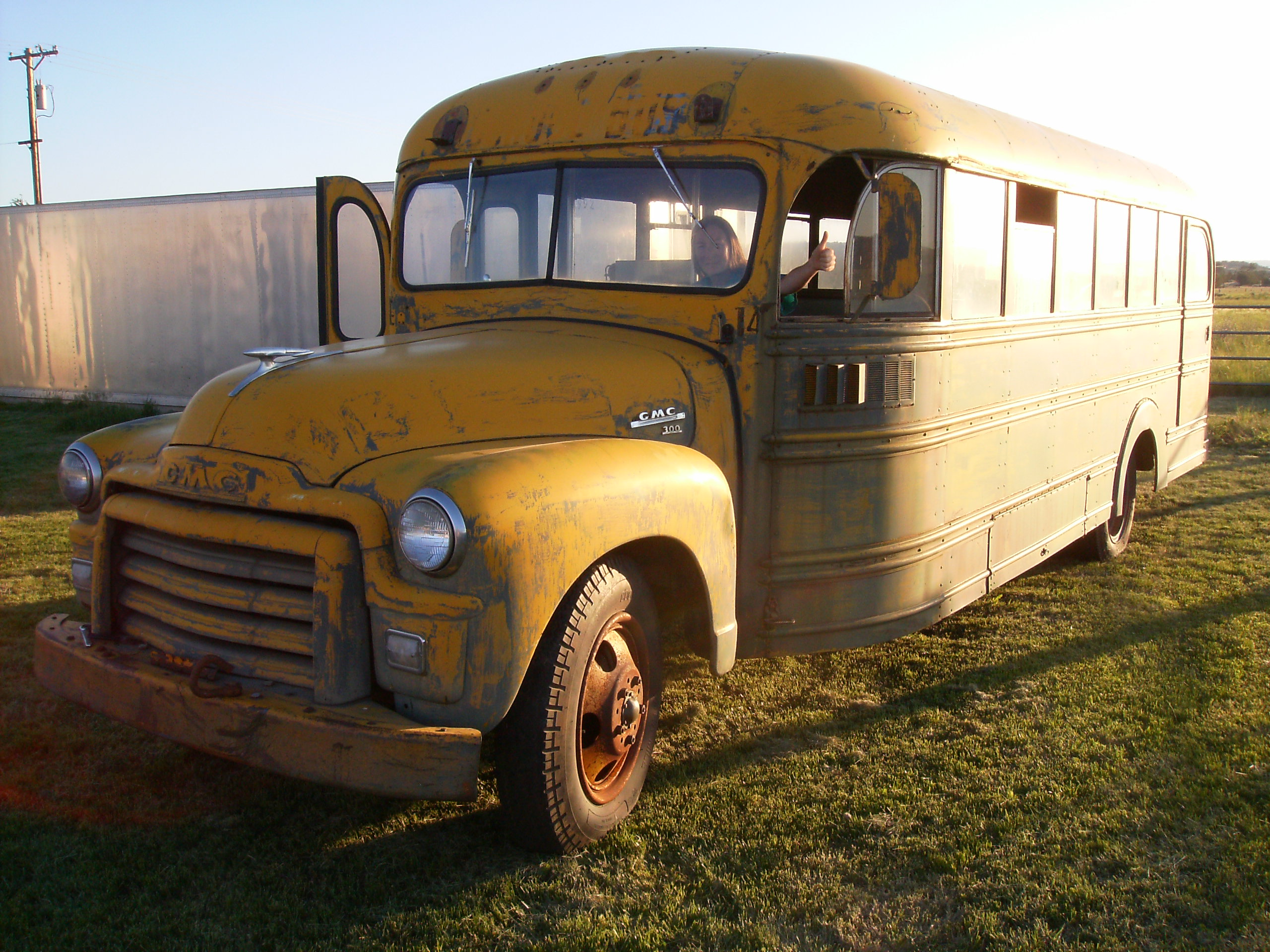 Photograph of a 1950s GMC school bus with a Carpenter Body Works body Description from Flickr: This 7-window (28 adult passenger) school bus was built on what I believe is a 1954 GMC chassis. The engine is a 270 c.i. inline six. The transmission is a four-speed manual. Brakes are power assisted drums, but steering is manual. The "rocket" hood ornament is a rare factory option. The bus now resides in Big Valley, California (Lassen County).